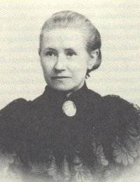 Eliška Krásnohorská